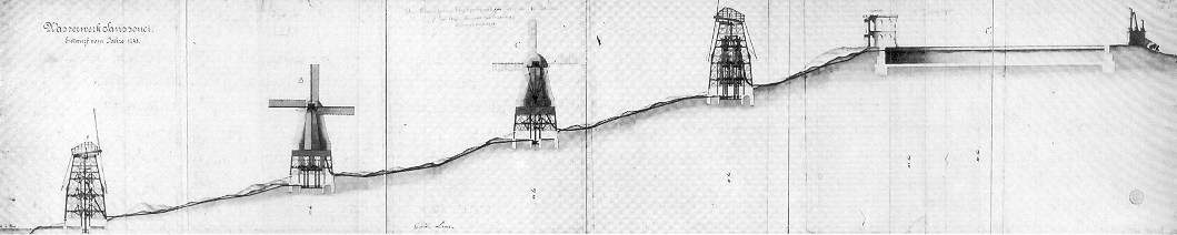 Unrealised project of a four-mill-freight lift in Sanssouci, Potsdam